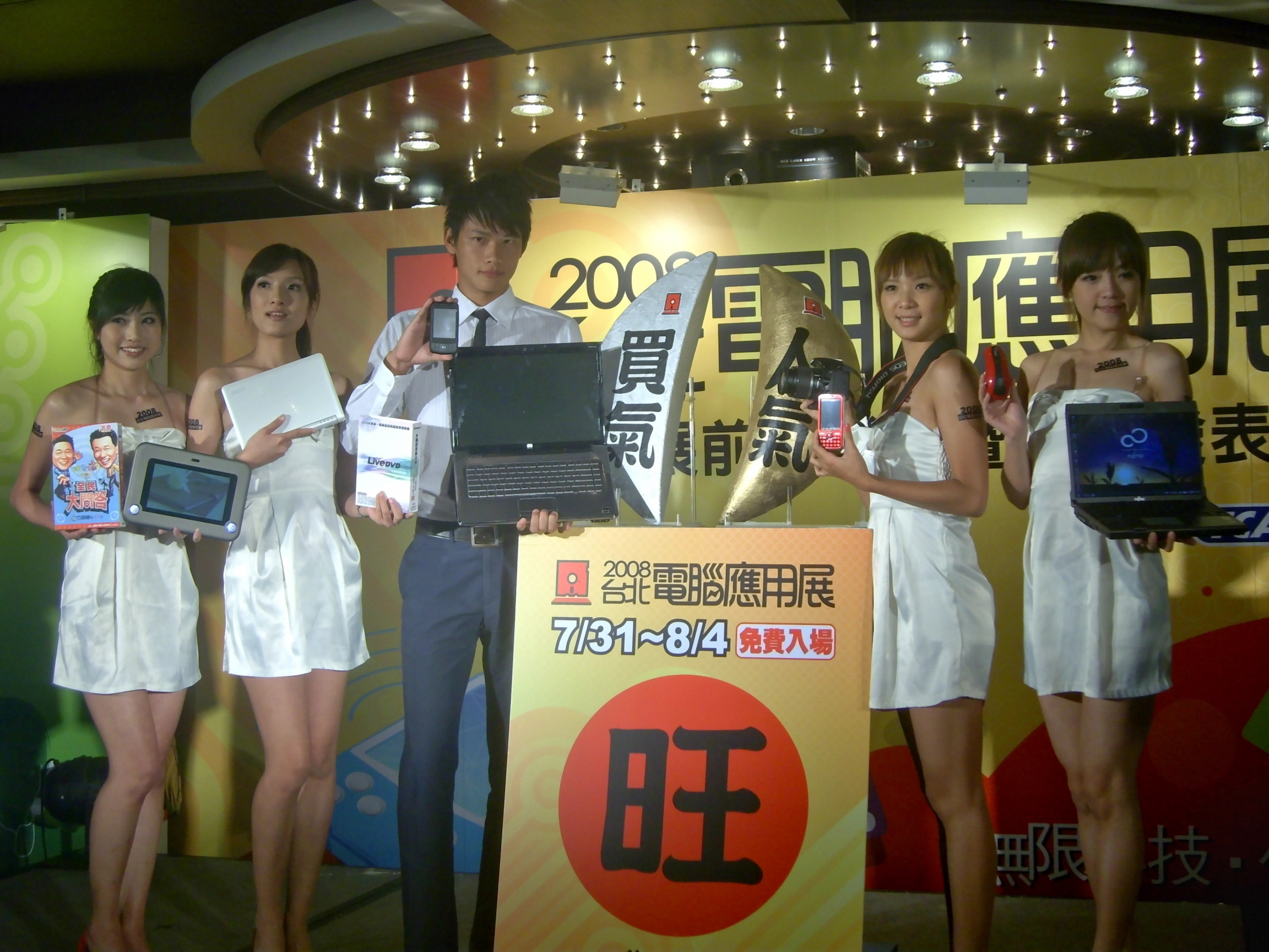 2008 Taipei Computer Applications Show Pre-Show Press Conference.